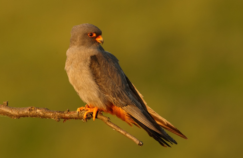 Falco vespertinus - male; Hungary